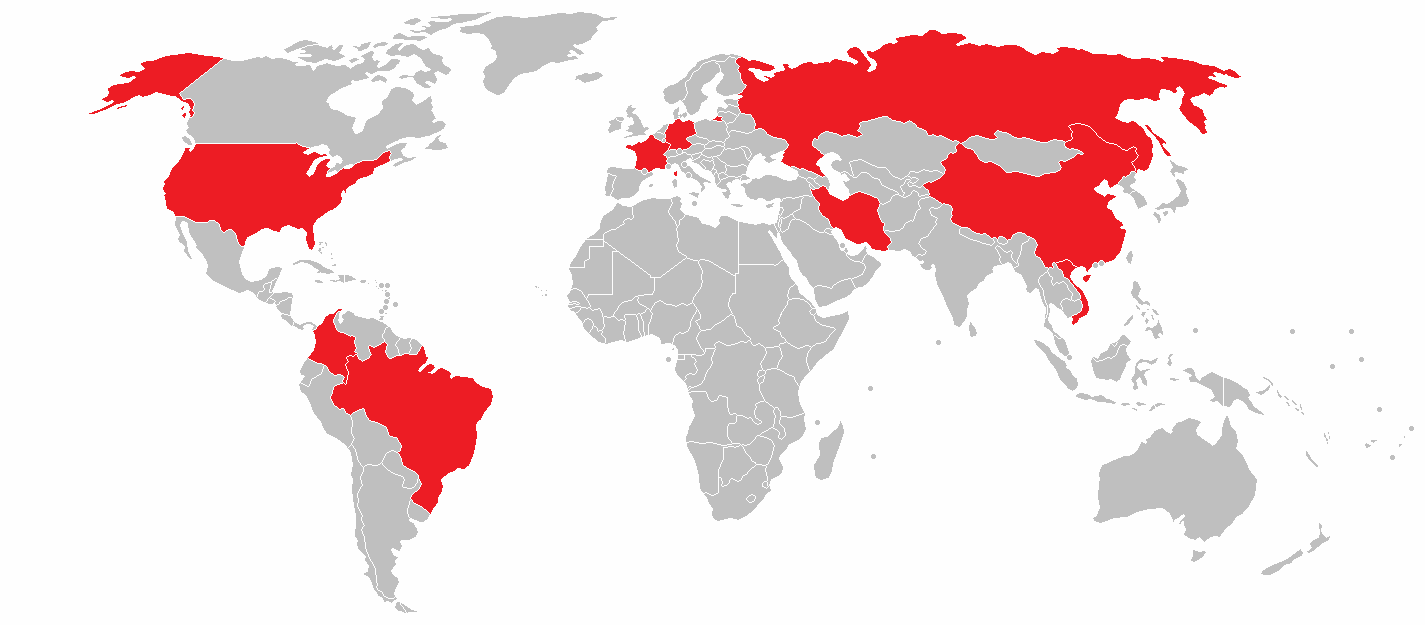 Groupe SEB global industrial locations